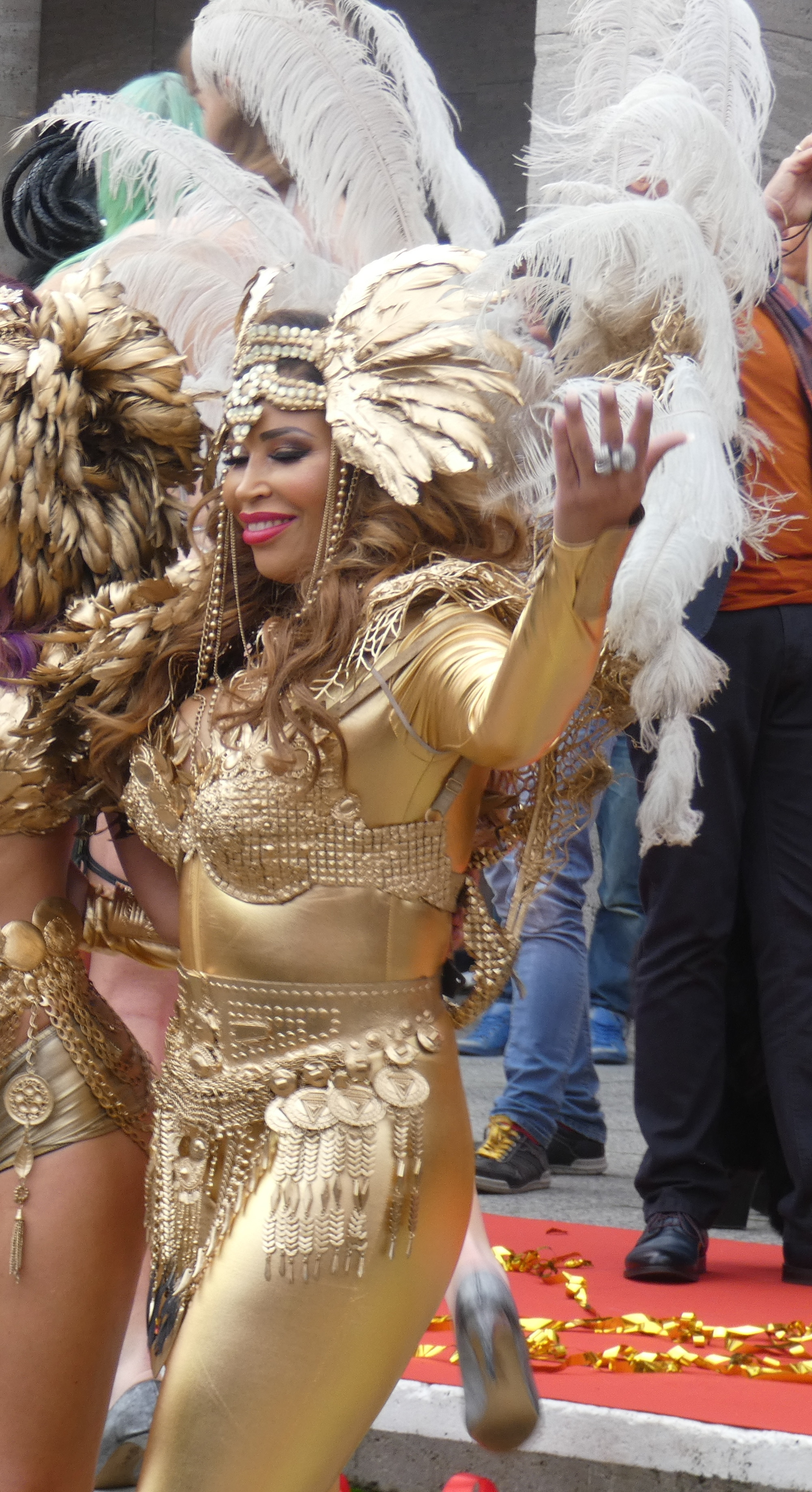 Opening of Venus Berlin 2019